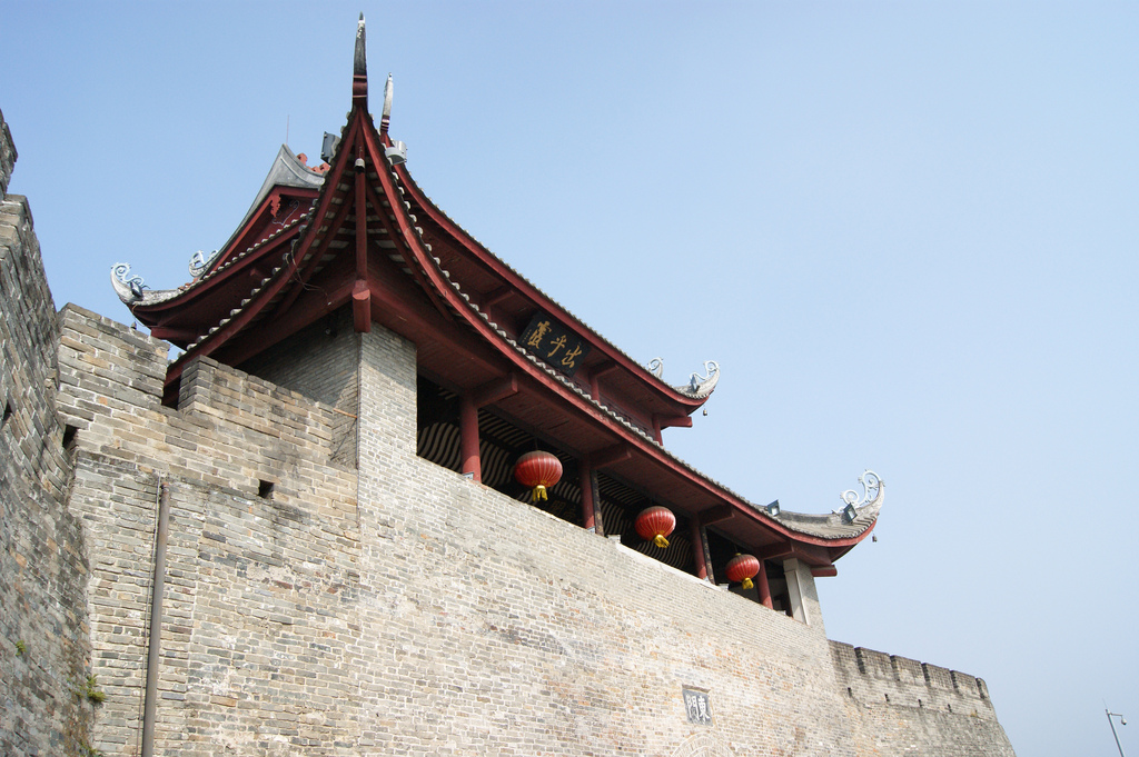 East Gate of Liuzhou